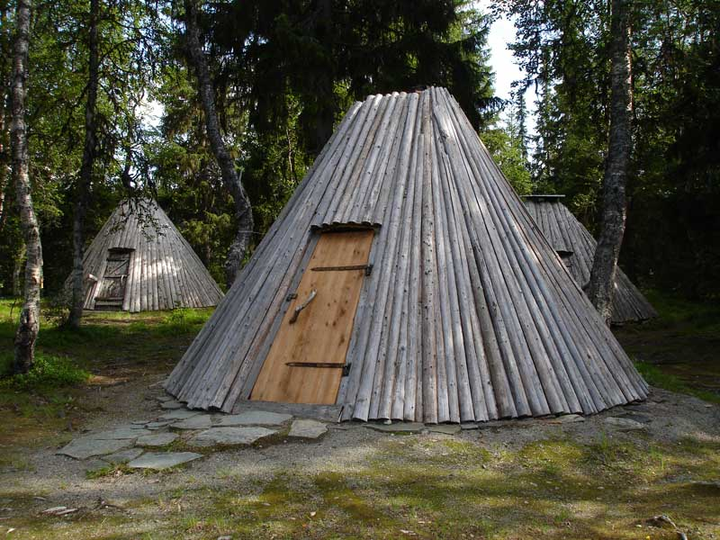 Sami huts at the church place in Ankarede, Strömsund, Sweden.